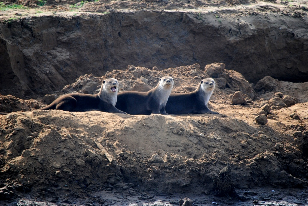 Three smooth coated otters on the banks of Kabini river, Karnataka, India.